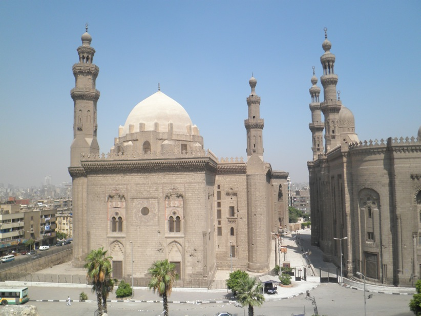 Sultan-Hasan-Mosque in Cairo